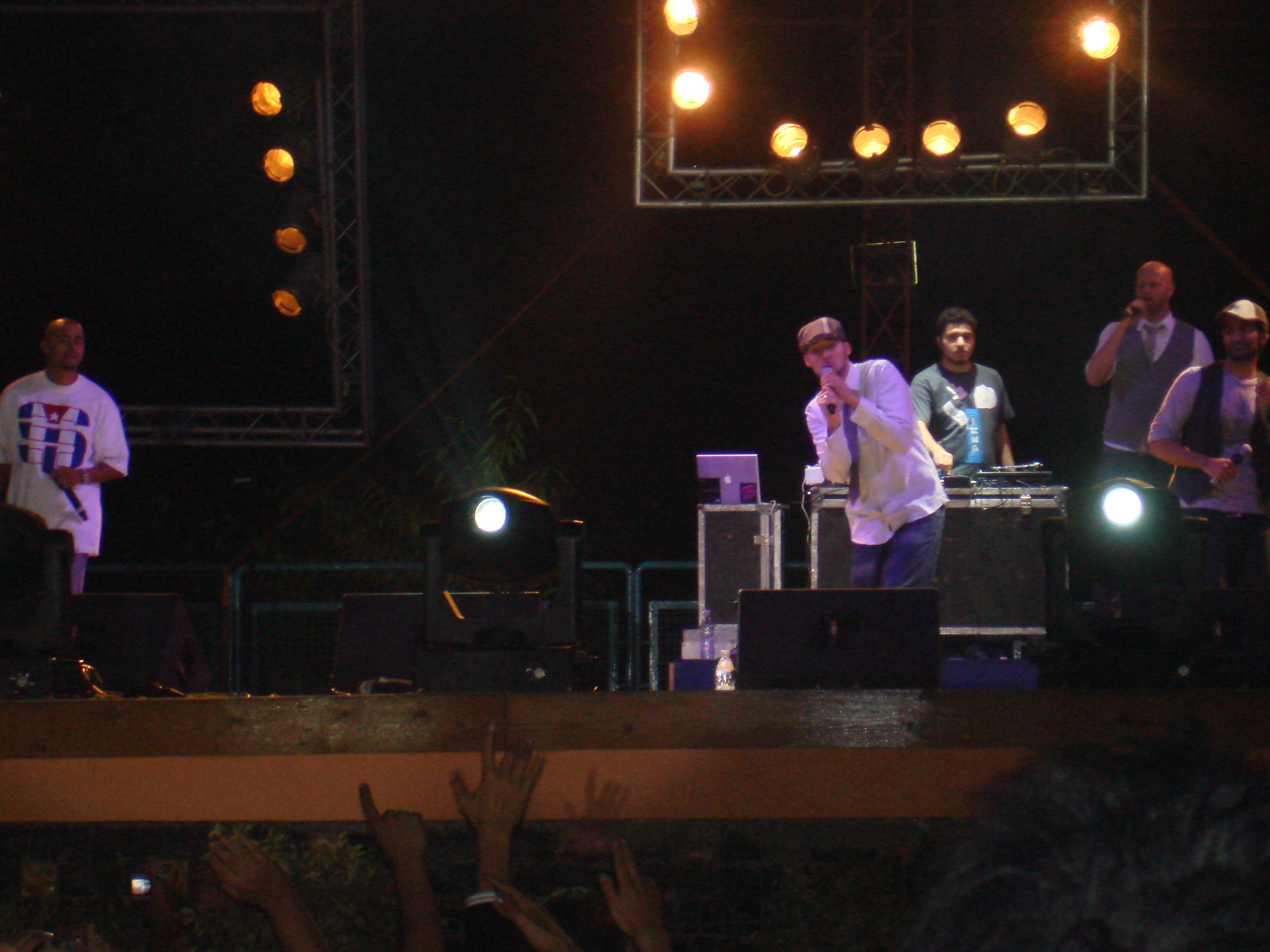 Outlandish Performing live in Cairo (2007)